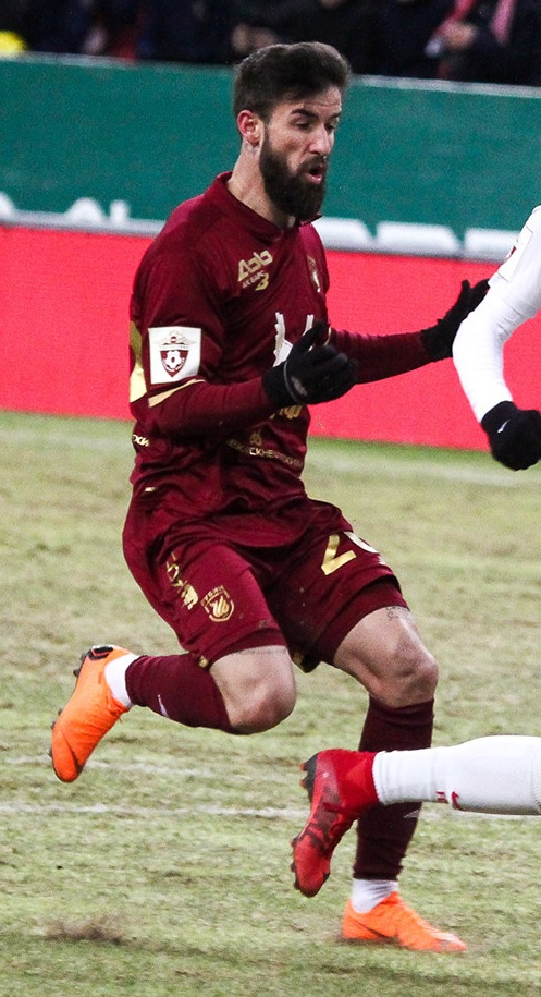 Gabriel Enache with FC Rubin Kazan in a game against FC Spartak Moscow.